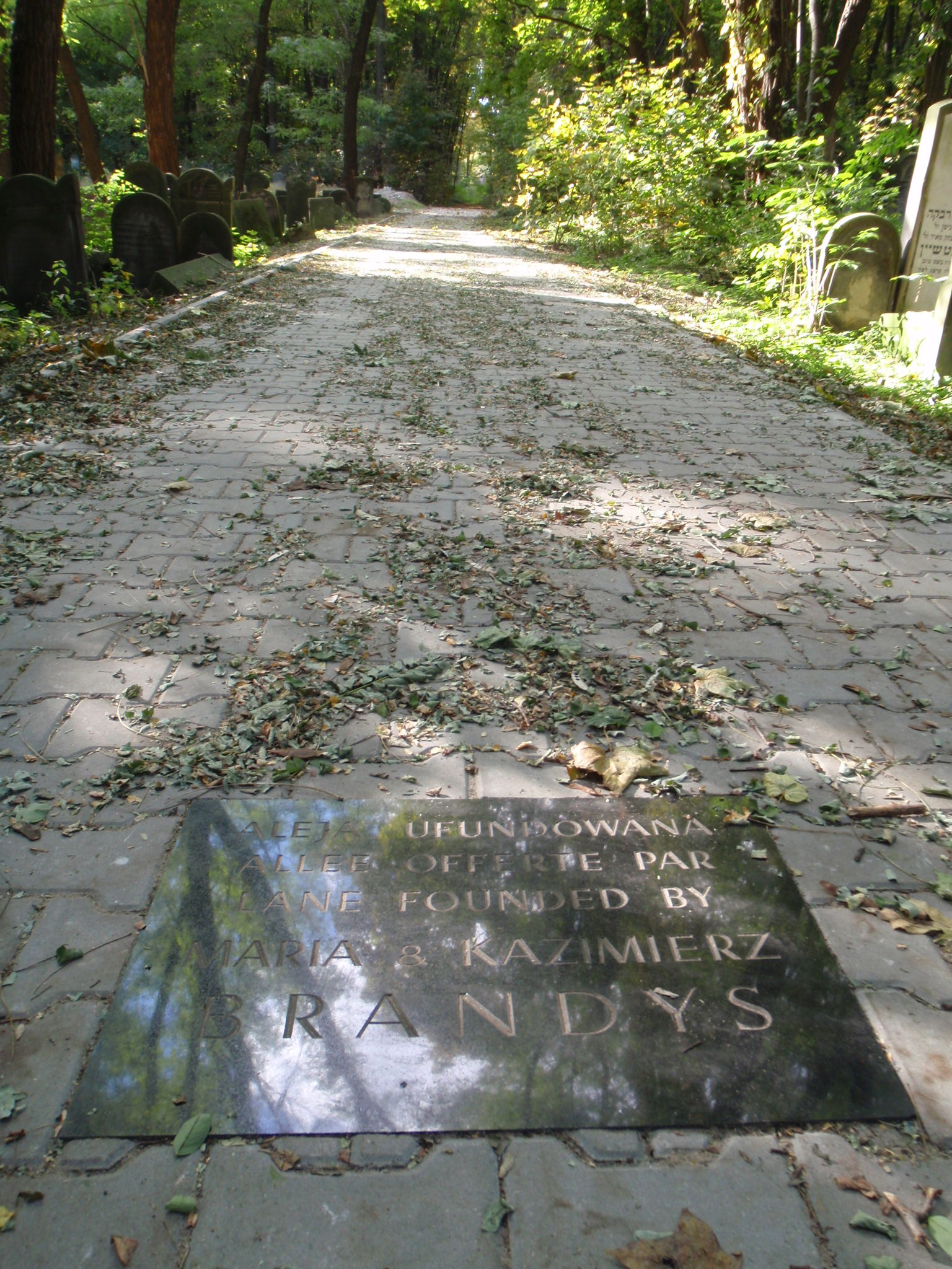 Lane founded by Maria and Kazimierz Brandys at Jewish cemetery in Warsaw